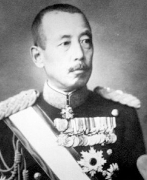 General Otozo Yamada (1881-1965)